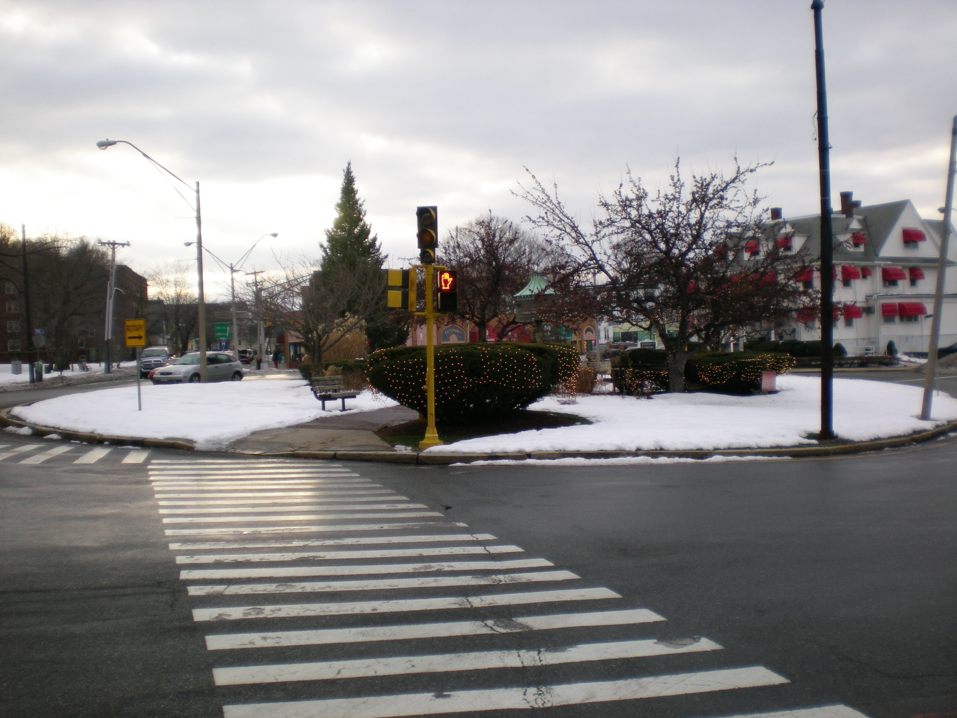 Powder House Square from Warner Street. The Doherty Funeral Home can be seen to the right. Powder House Square, Somerville, MA